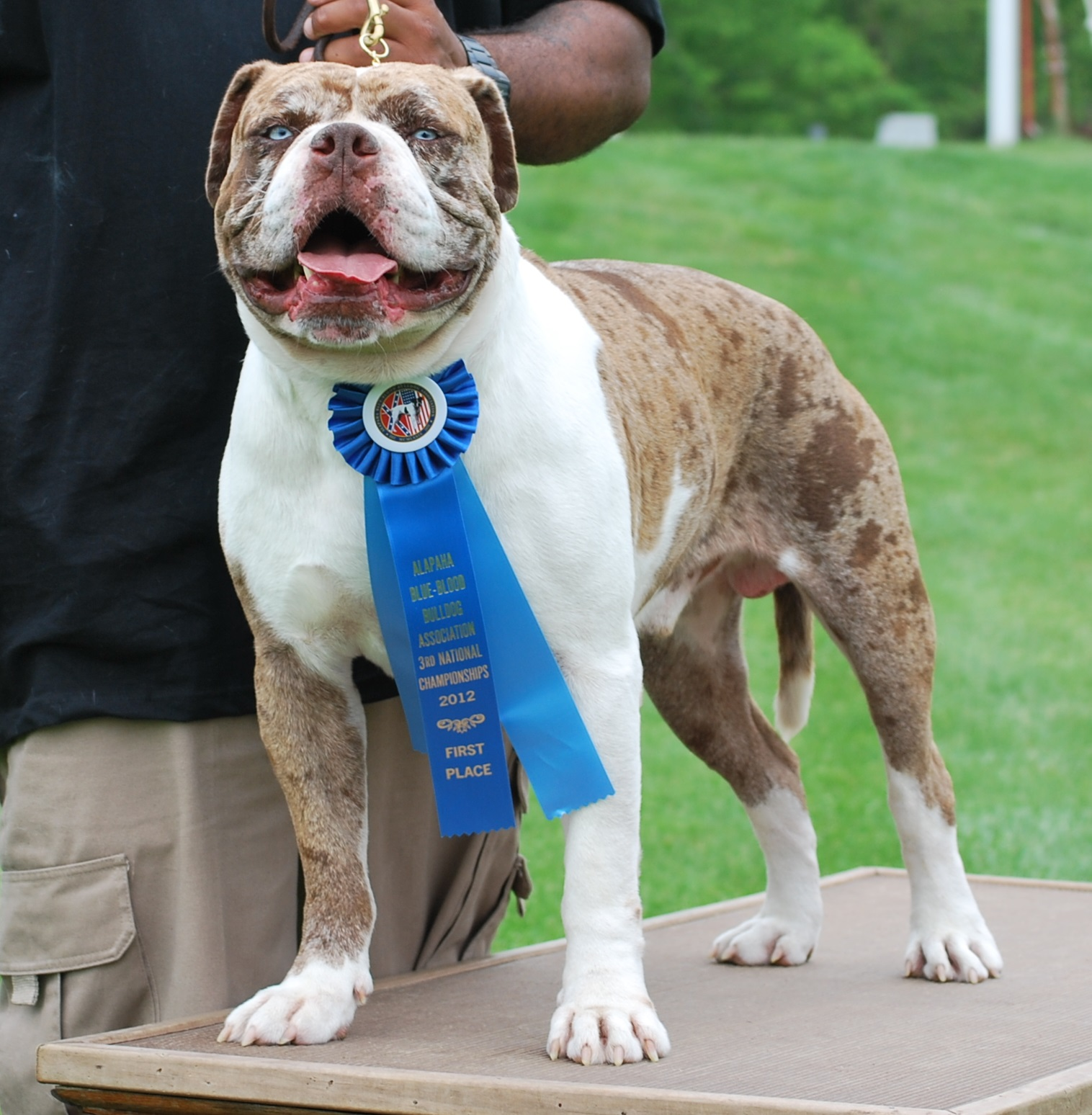 Alapaha Bulldog Breed Assoctiation (ABBA) 3rd National Championships, dog show.